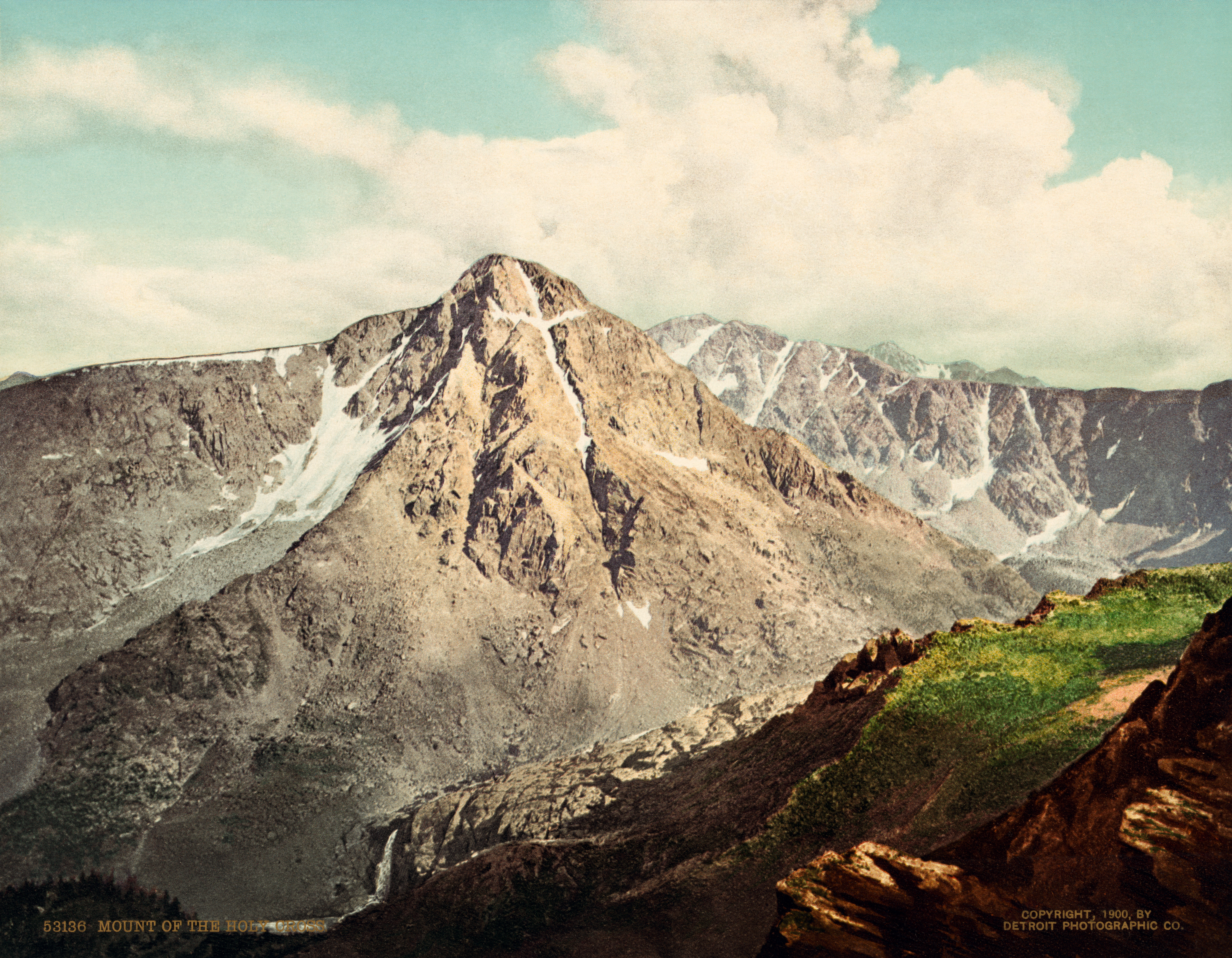 53136. Mount of the Holy Cross, Colorado.